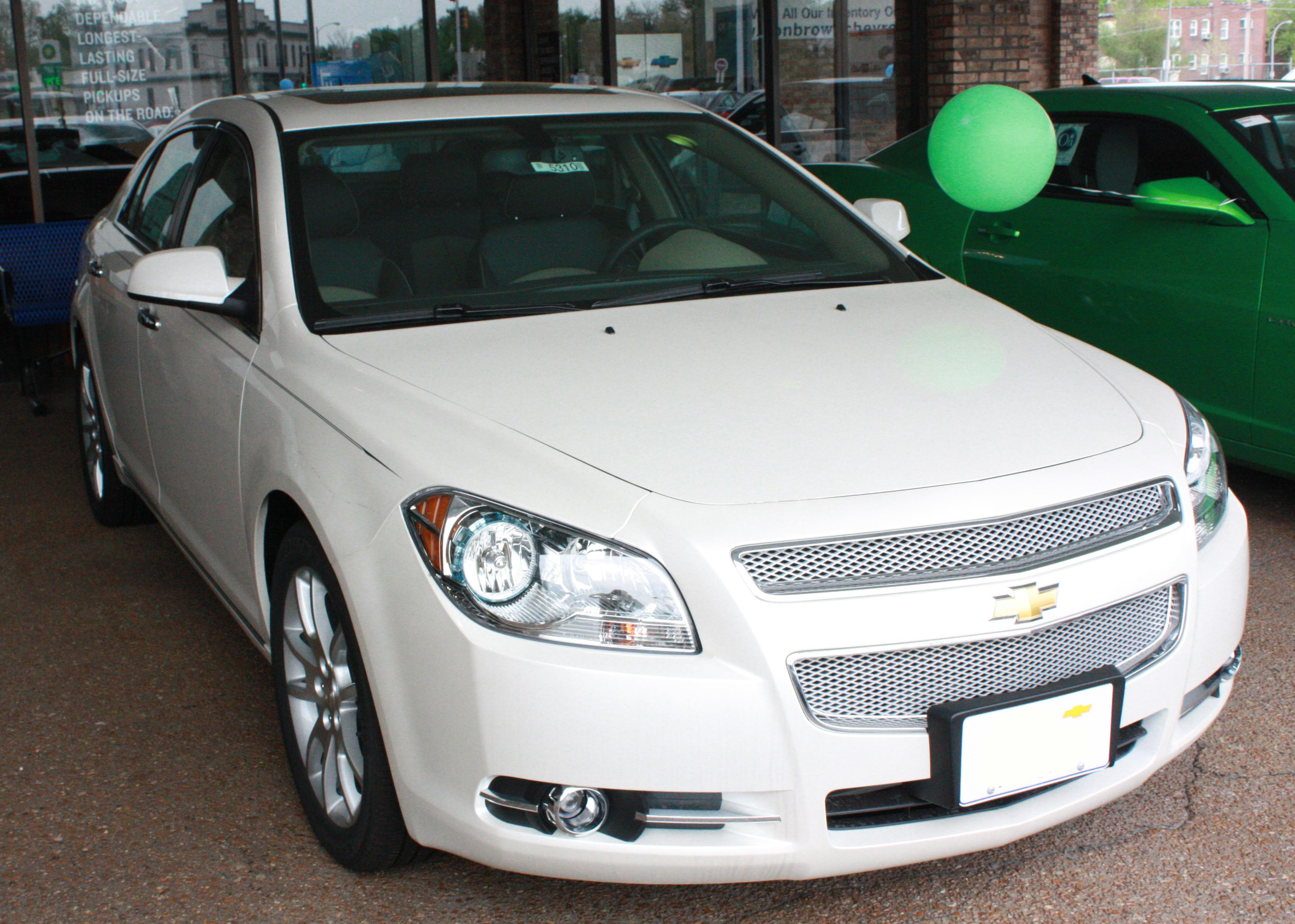 White 2011 Chevrolet Malibu